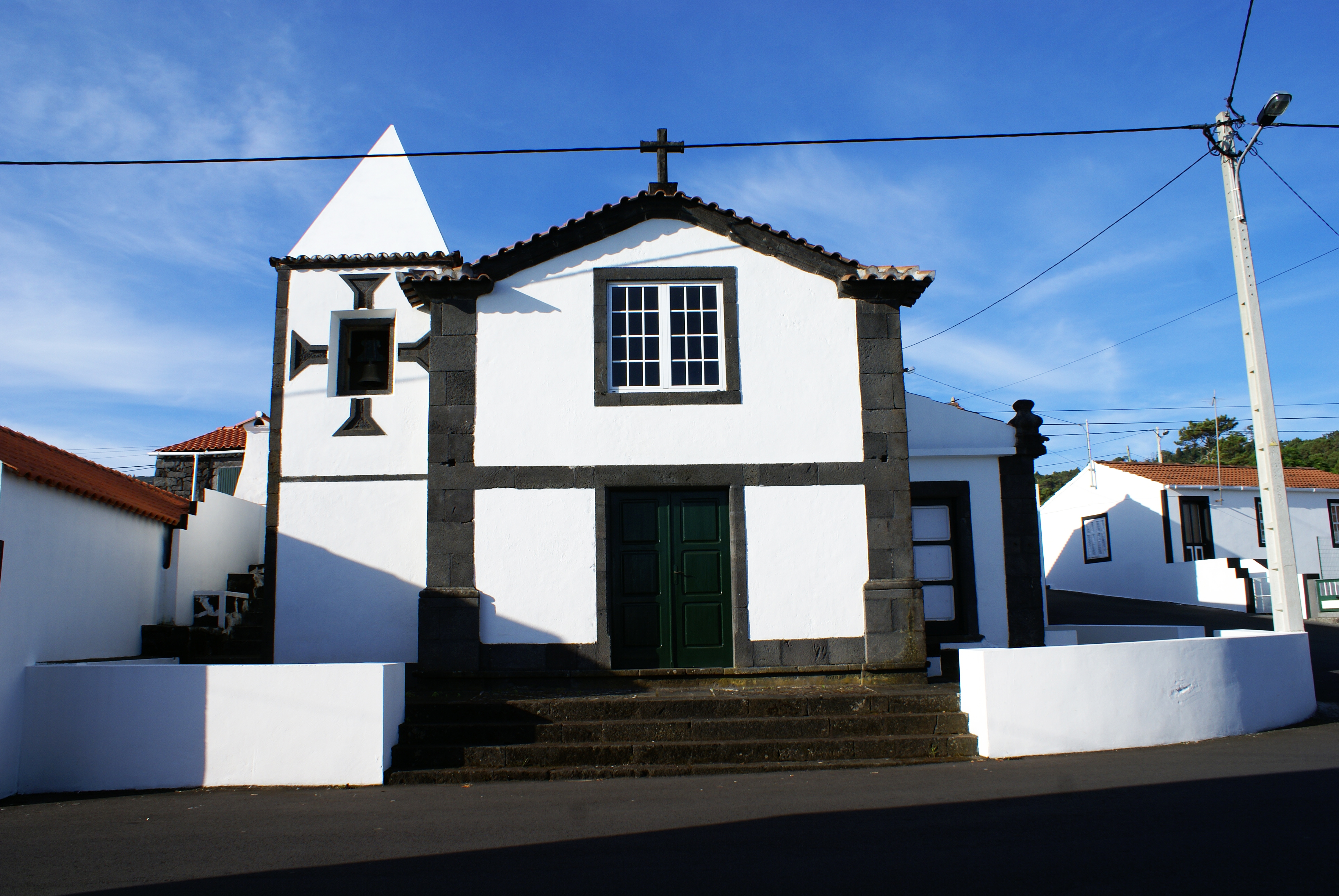 Front façade of the Chapel of São Vicente, São Roque do Pico, Pico (Azores), Portugal